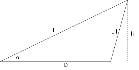 Triangle comprised between a diagonal and two sides. The sum of the length of the sides is constant = L